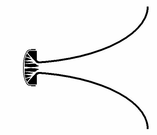 Horn loudspeaker with compression driver and phase plug.